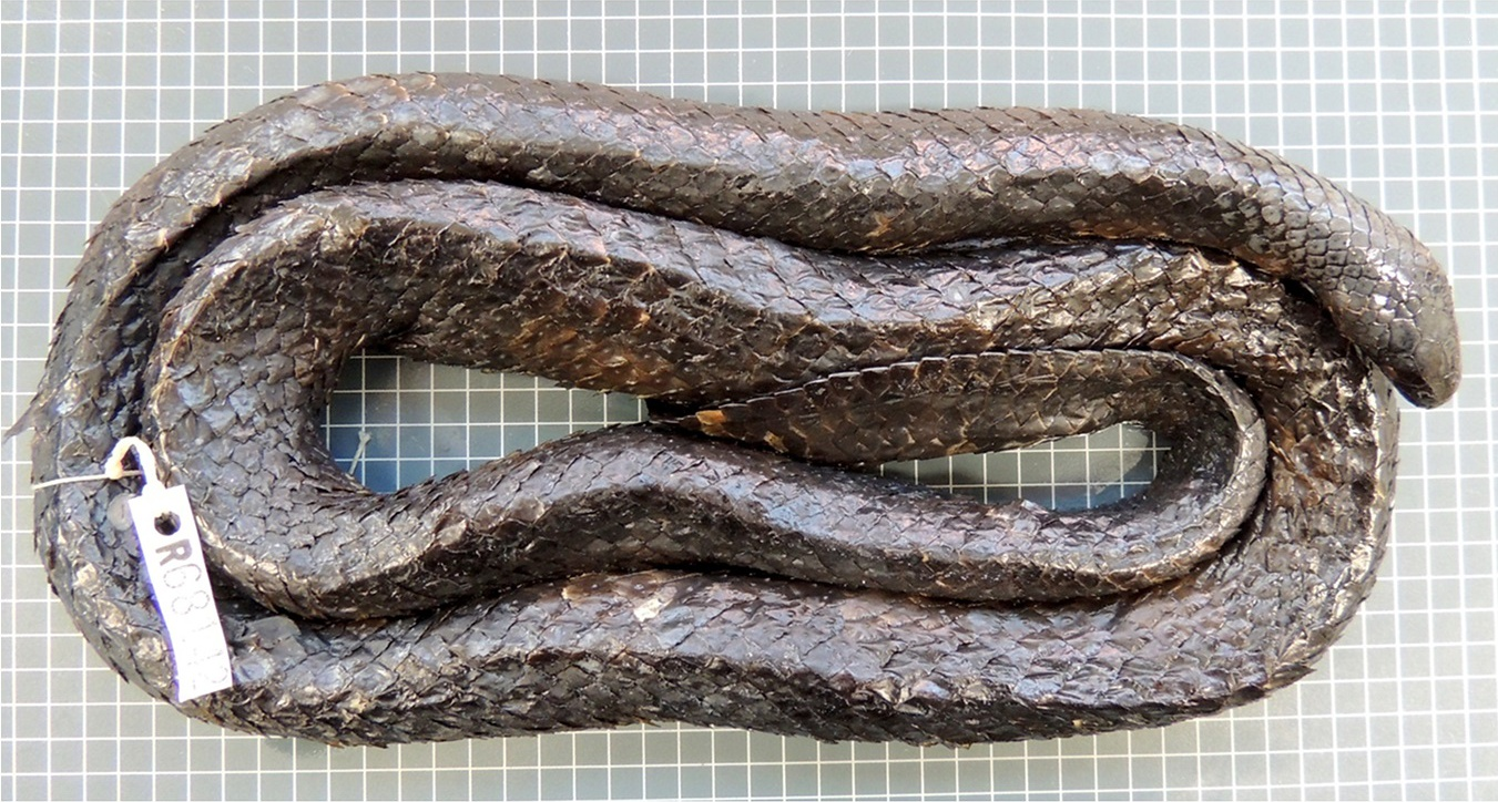 Aipysurus apraefrontalis specimen (SAMA R68142) from Ashmore Reef, Australia